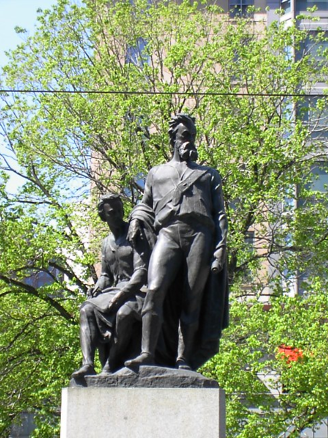 This photo was taken by me, User:Adam Carr, and is released by me into the public domain